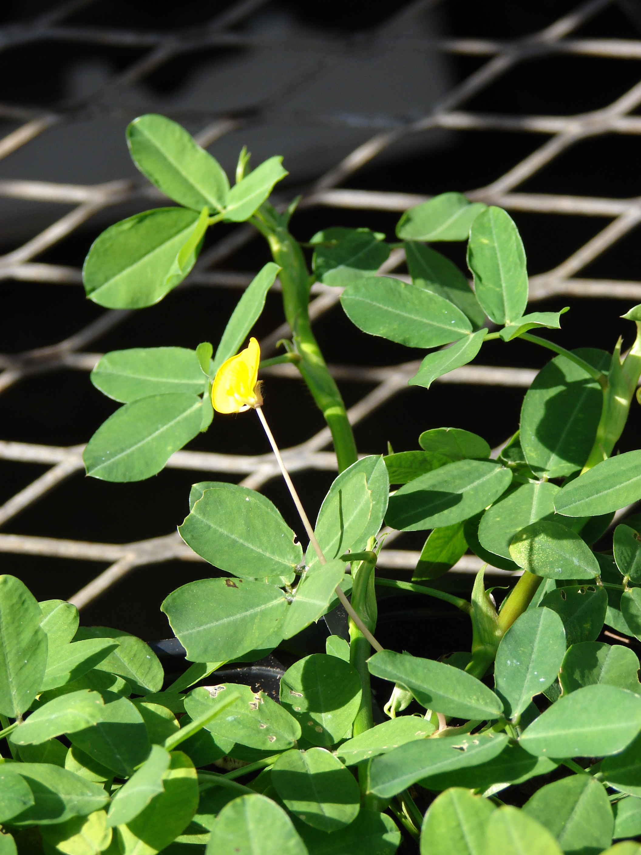 Arachis pintoi (flowering habit). Location: Maui, Lowes Garden Center Kahului